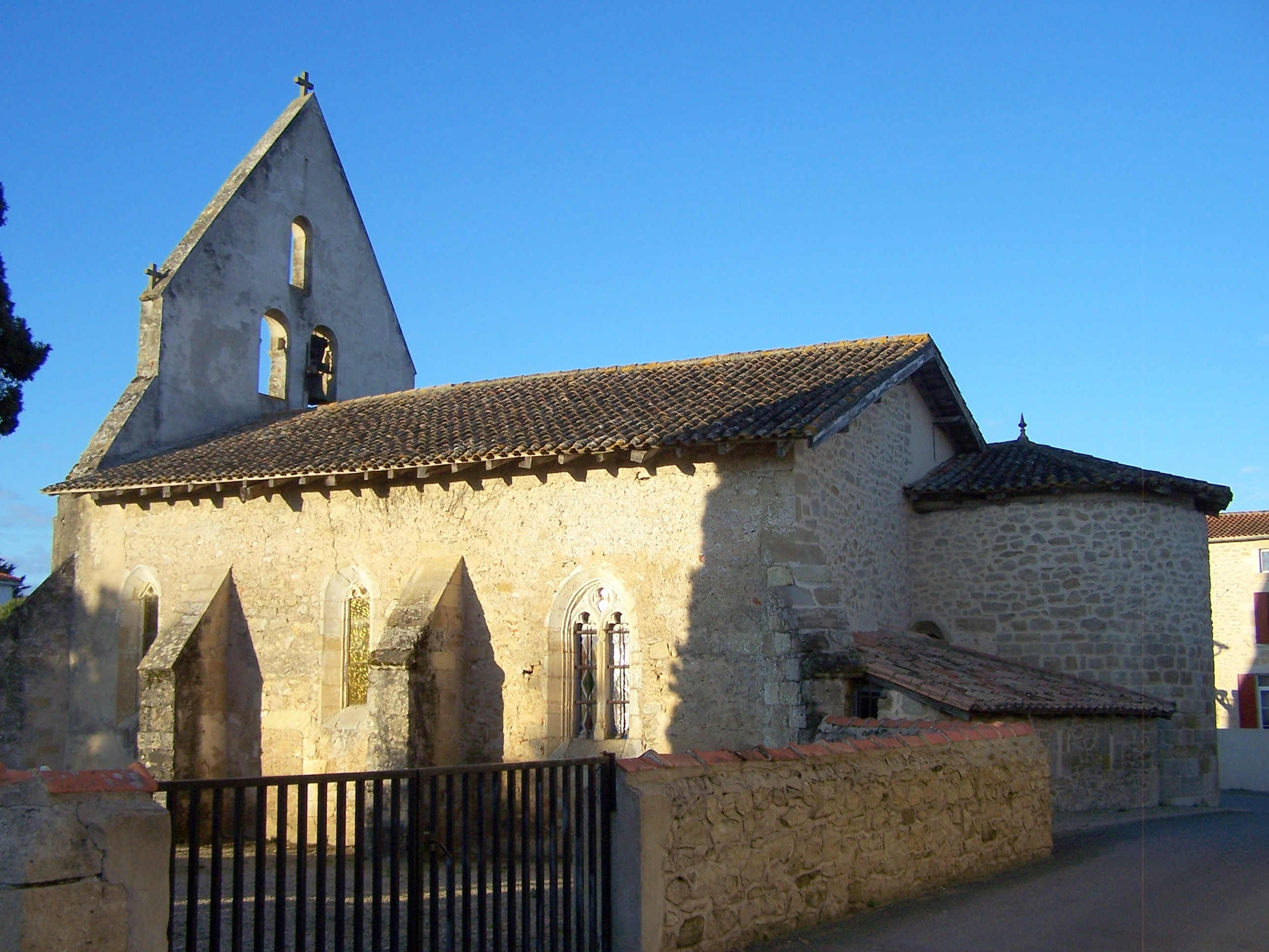 Church of Bourdelles (Gironde, France)